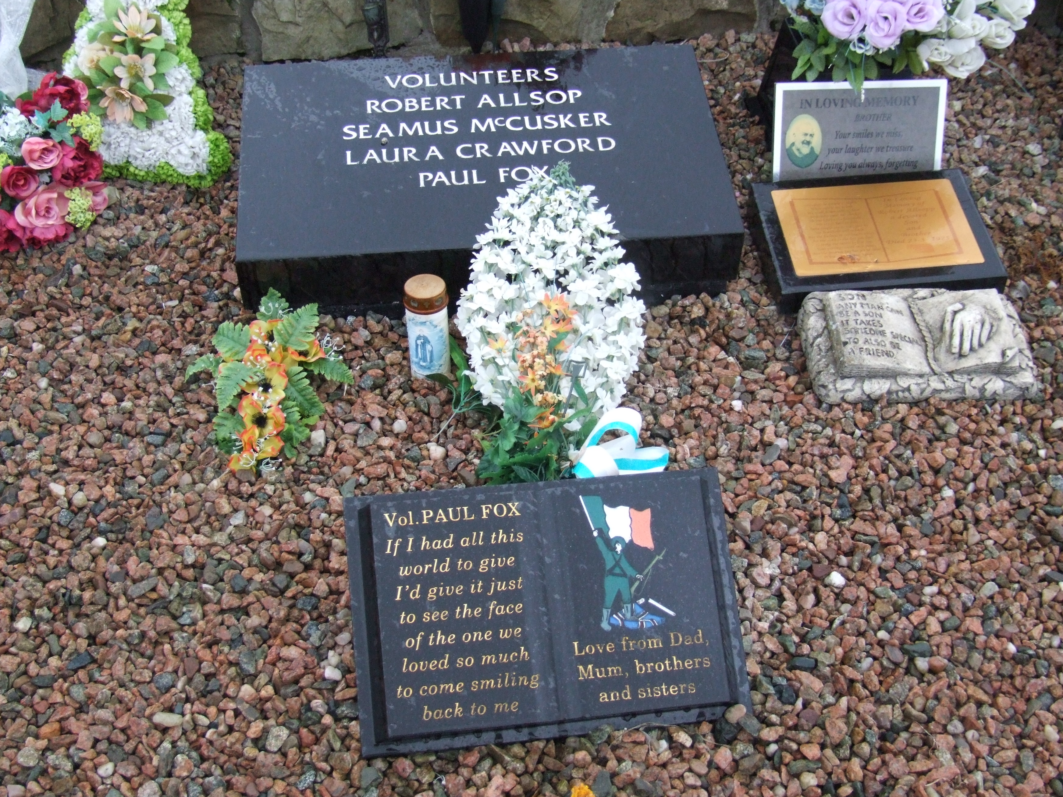 New Republican Plot - IRA, Milltown Cemetery, West Belfast, Northern Ireland